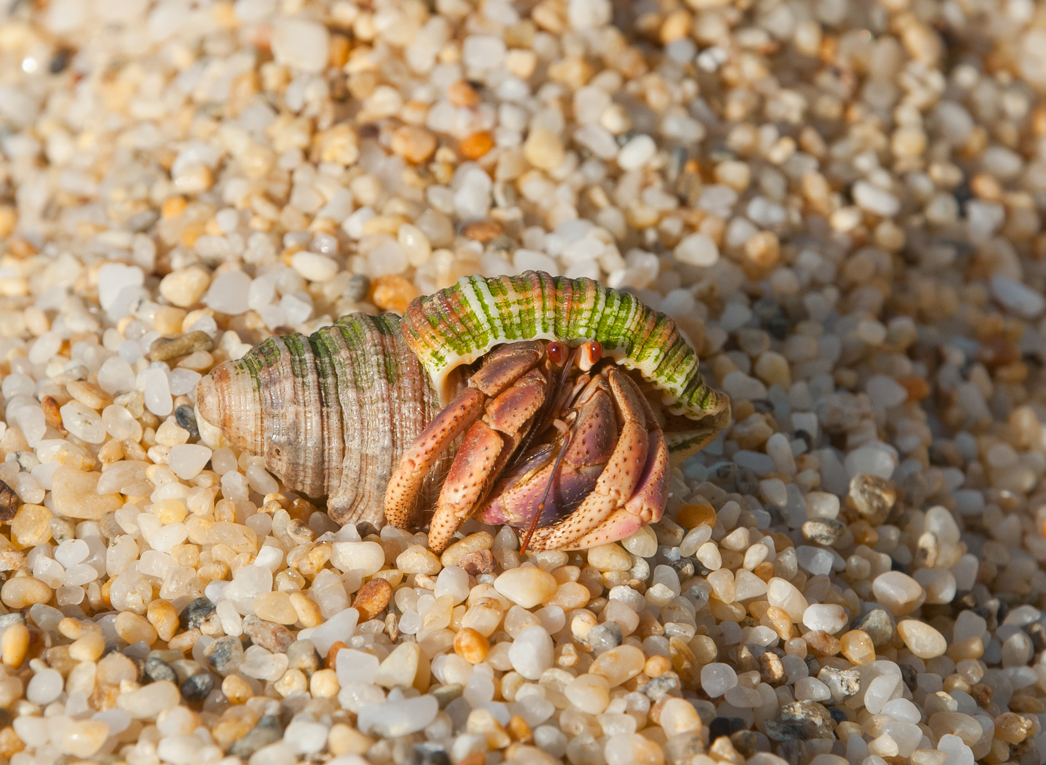 Coenobita clypeatus, in the sand.